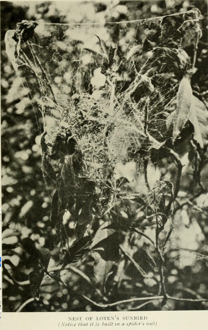 Nest of a Cinnyris lotenius in an Eresid colony (Stegodyphus sp.), photograph by FDS Fayrer